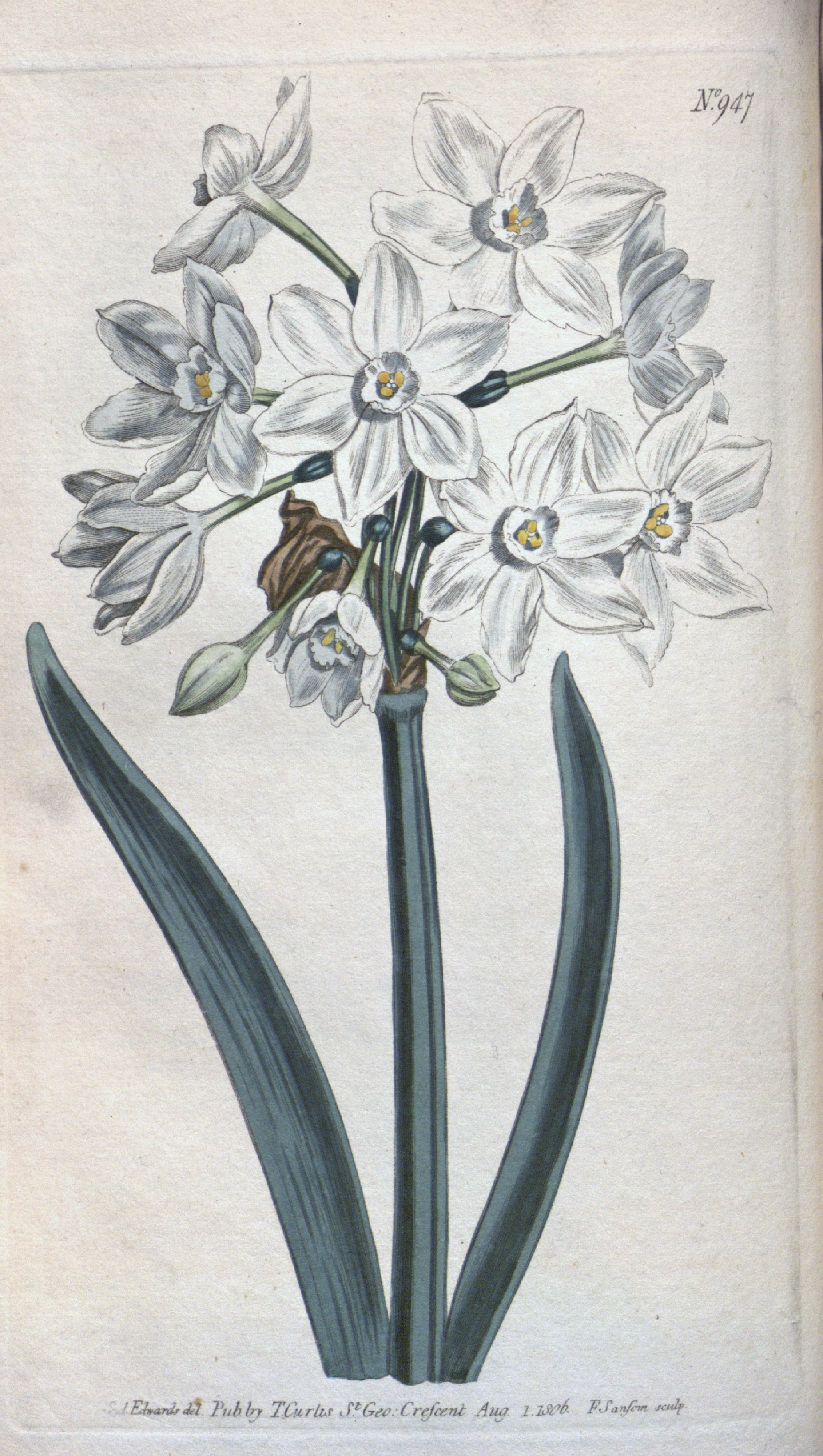 Bot. Mag. 24: t. 947. 1806